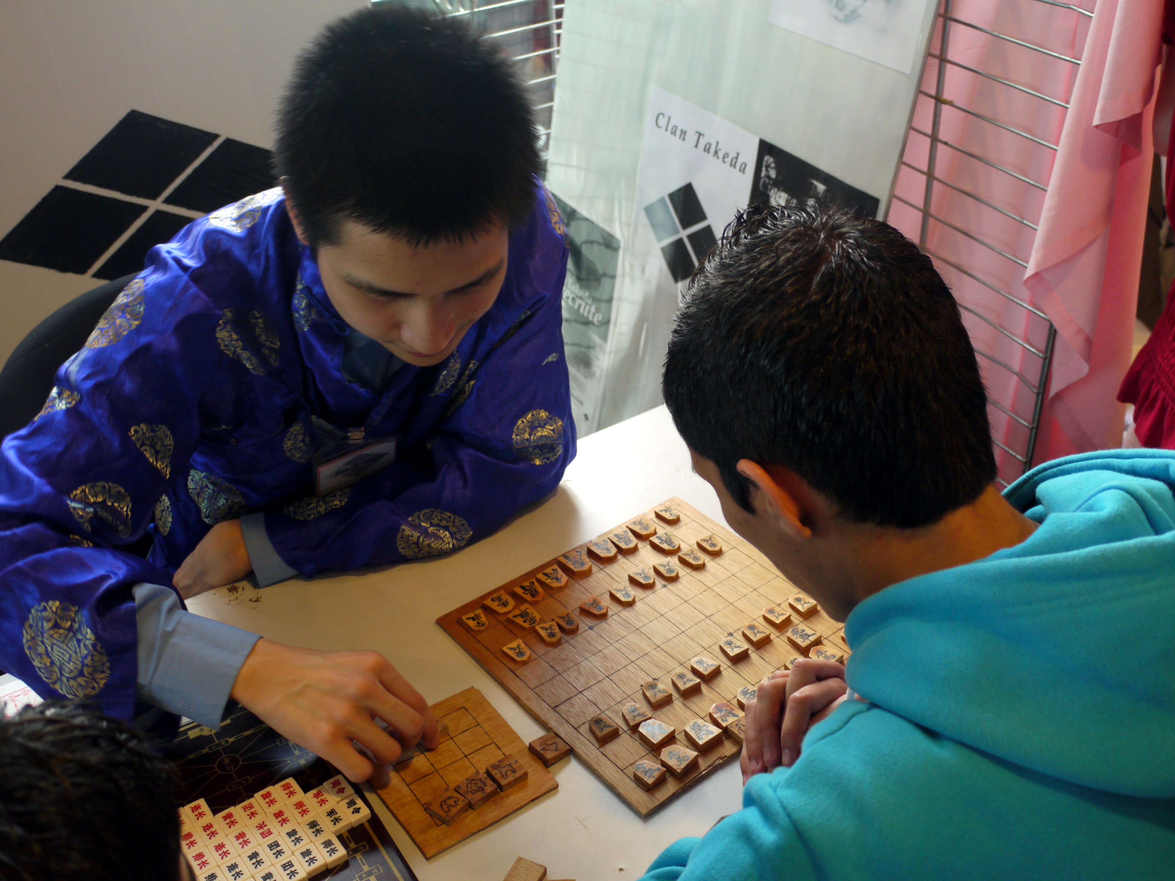 Mang'Azur festival of Toulon - official site